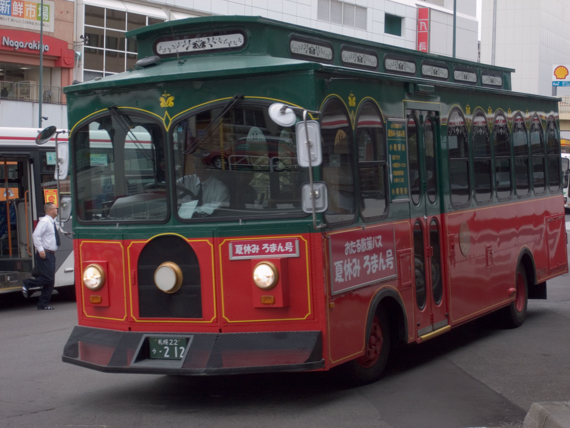 Otaru stroll bus "Roman", Otaru, Hokkaido, Japan